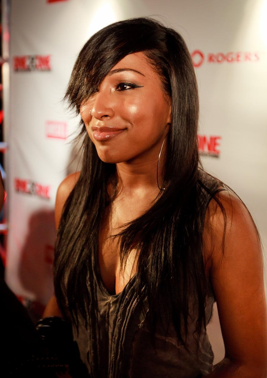 Melanie Fiona in 2011.